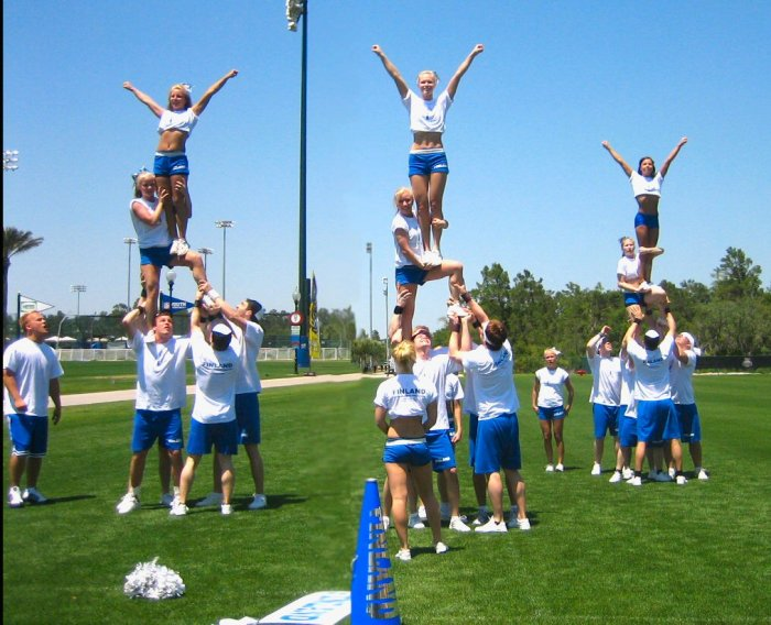 Cheerleading pyramids